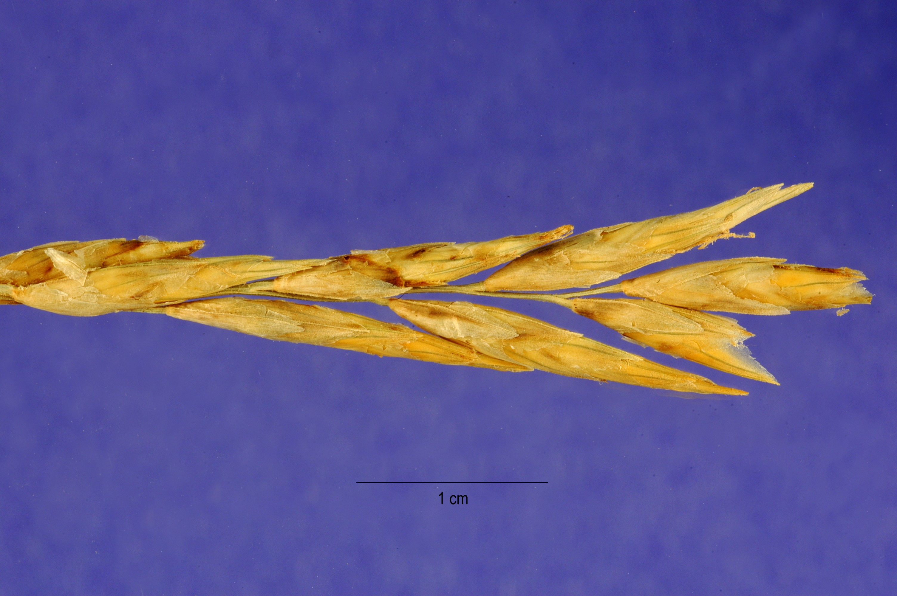 Texas Salt. Family Poaceae. Plant.